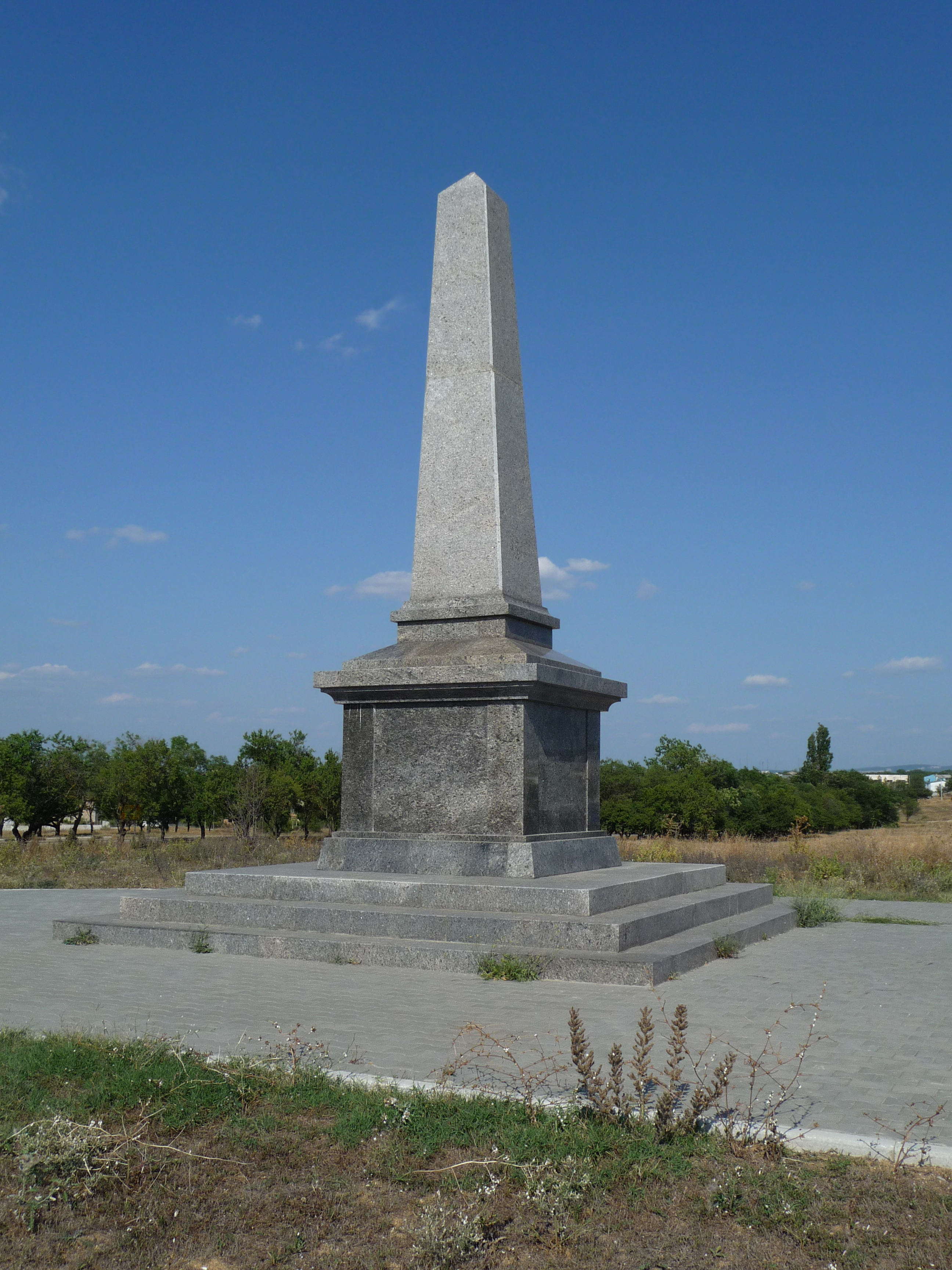 Memorial of the Battle of Balaclava near Sevastopol, Balaclava way (Balaclava valley). The original inscription reads: In Memory of the British Who Fell in the Crimean War 1854-1856, on the Occasion of its 150th Anniversary